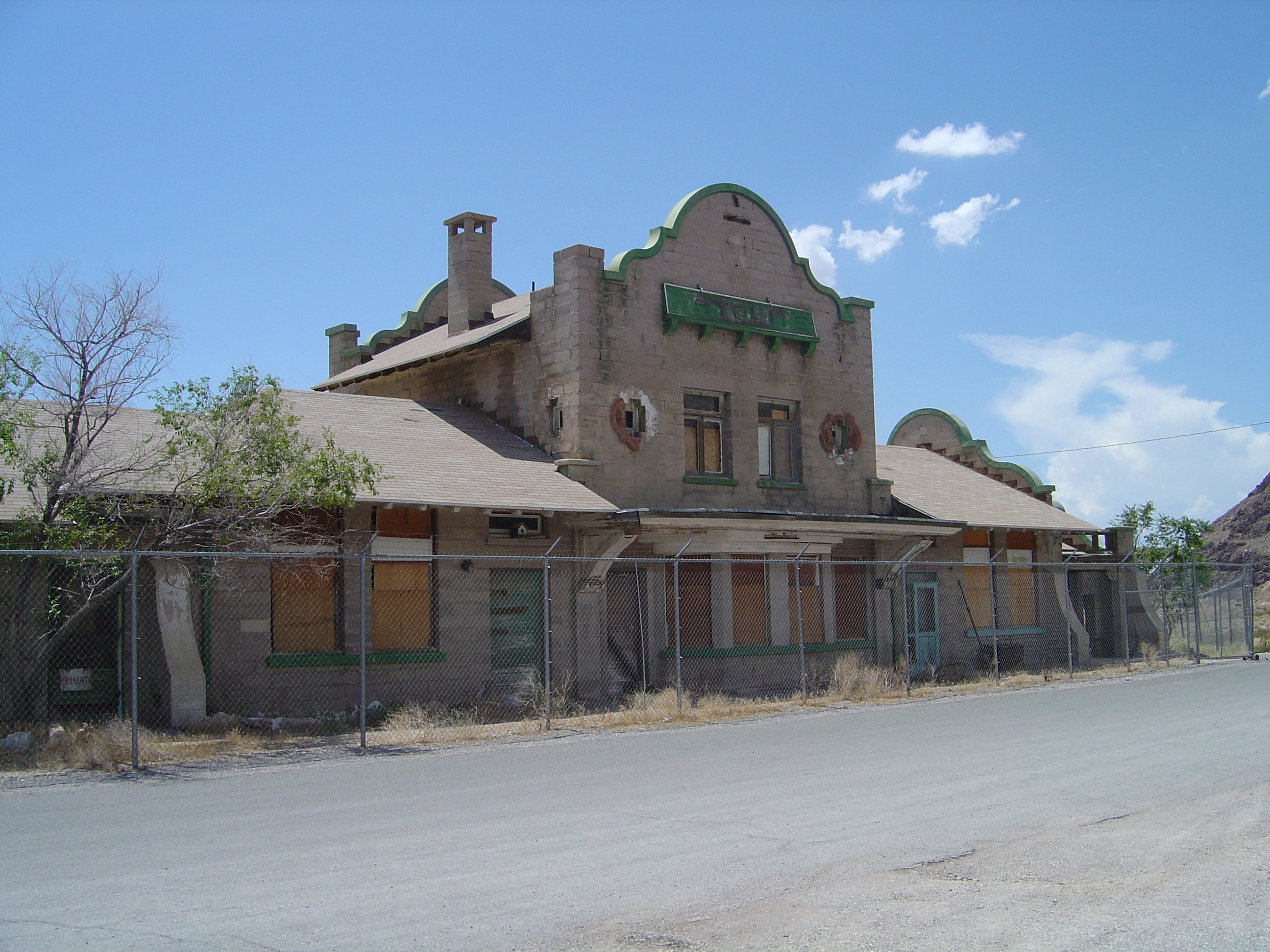 Rhyolite Station July 2006